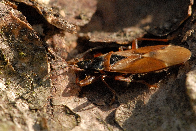 Gastrodes abietum from Commanster, Belgian High Ardennes .